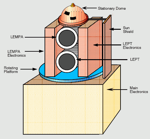 Voyager probe - Low-Energy Charged Particles